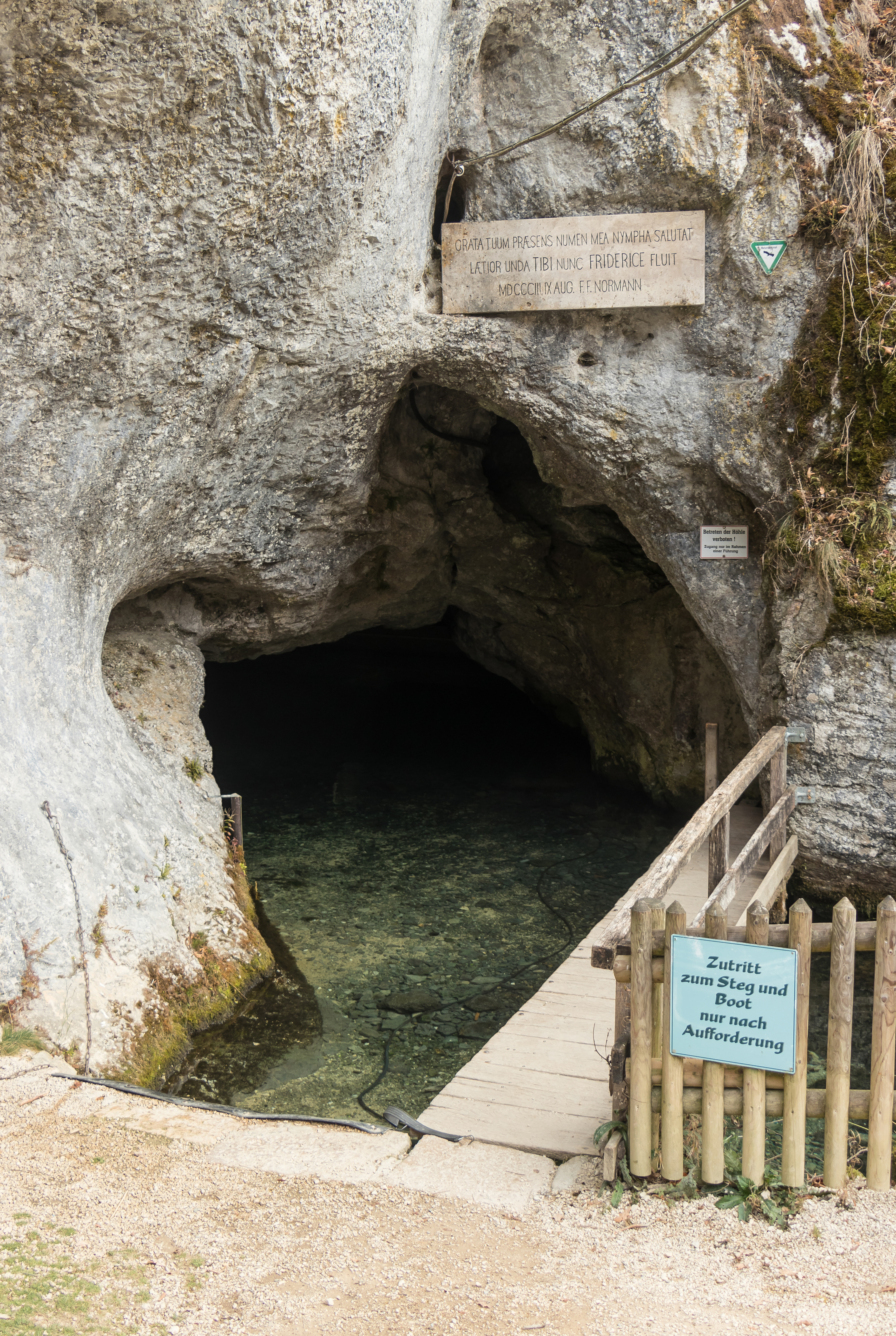 Entrance to the Wimsener Höhle, Hayingen, Swabian Alb, Germany. Inscription on the plate above the cave: Grata tuum praesens numen mea nympha salutat. Laetior unda tibi nunc Friderice fluit. MDCCCIII. IX Aug F.F. Normann. Thankfully, the here ruling nymph greets the exalted visitor. Now more cheerfully flows for you, Frederick, the soughing river. 9. August 1803 Friedrich Freiherr von Normann